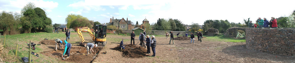 Four photos merged together to show the extent of the dig at Groby Old Hall. The Castle mound is out of shot on the left of the picture. Also not pictured is the trench behind the castle mound, which was cut through the site of bailey wall.